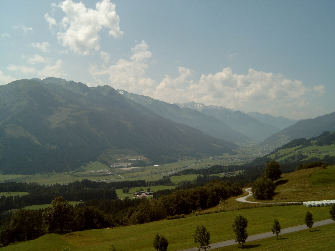 "Pass Thurn", south ramp, view to "Salzach" valley